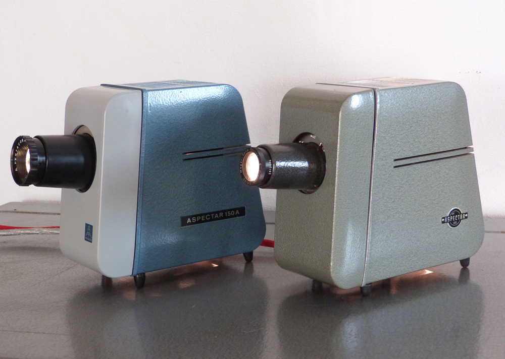 slide projector ASPECTAR 150 A